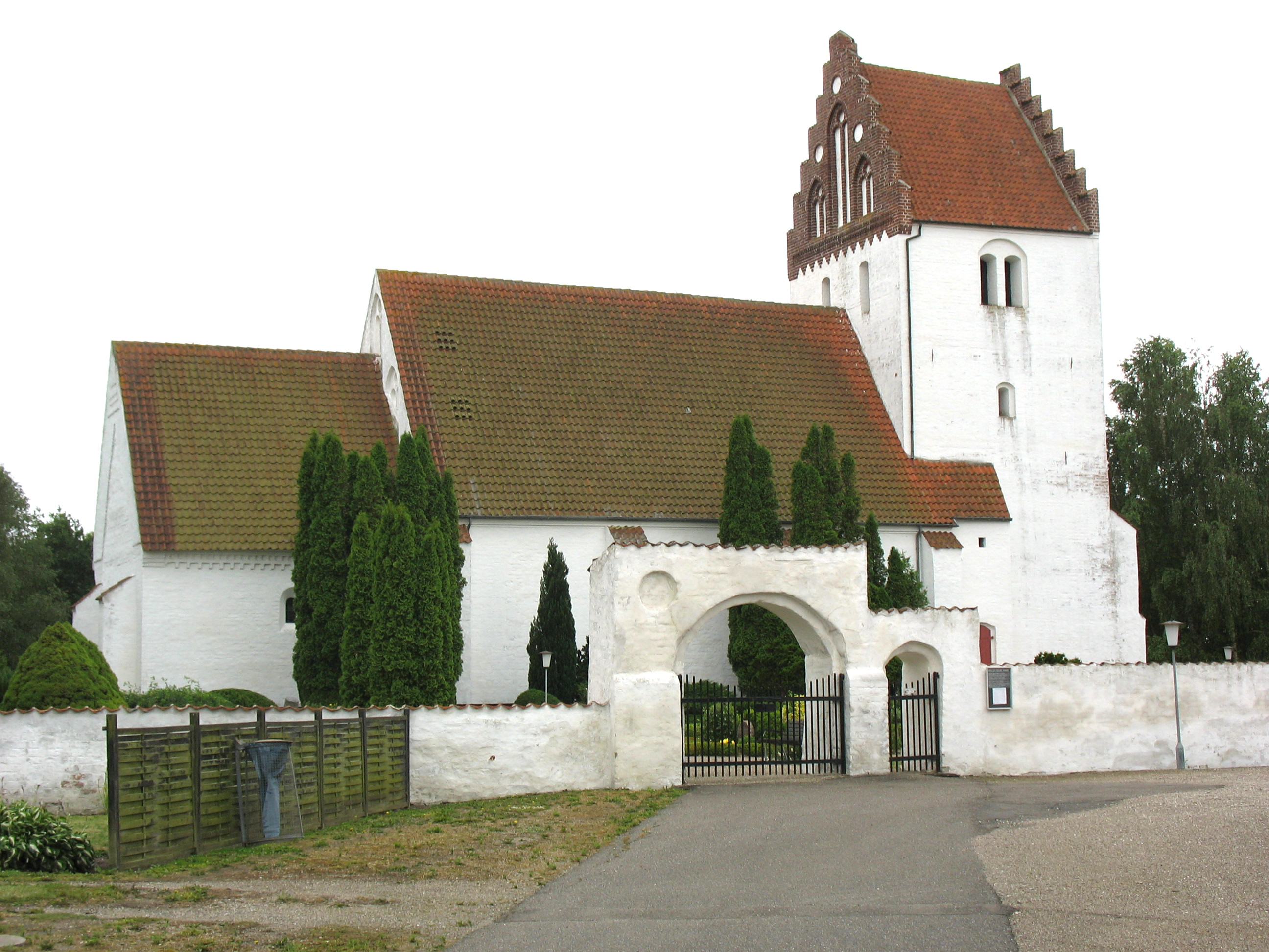 The church "Døllefjelde Kirke" on the Danish island Lolland.